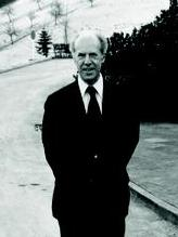 On the Photo: Debreu, Gerard; Hildenbrand, Werner — Location: Oberwolfach — Author: Jacobs, Konrad (photos provided by Jacobs, Konrad) — Source: Konrad Jacobs, Erlangen — Year: 1977